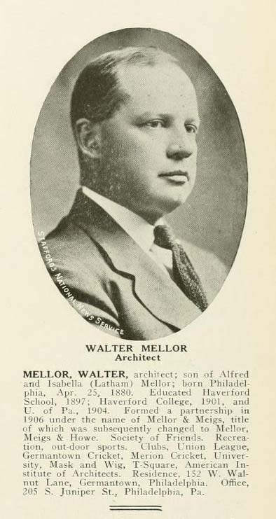 "Walter Mellor, Architect."